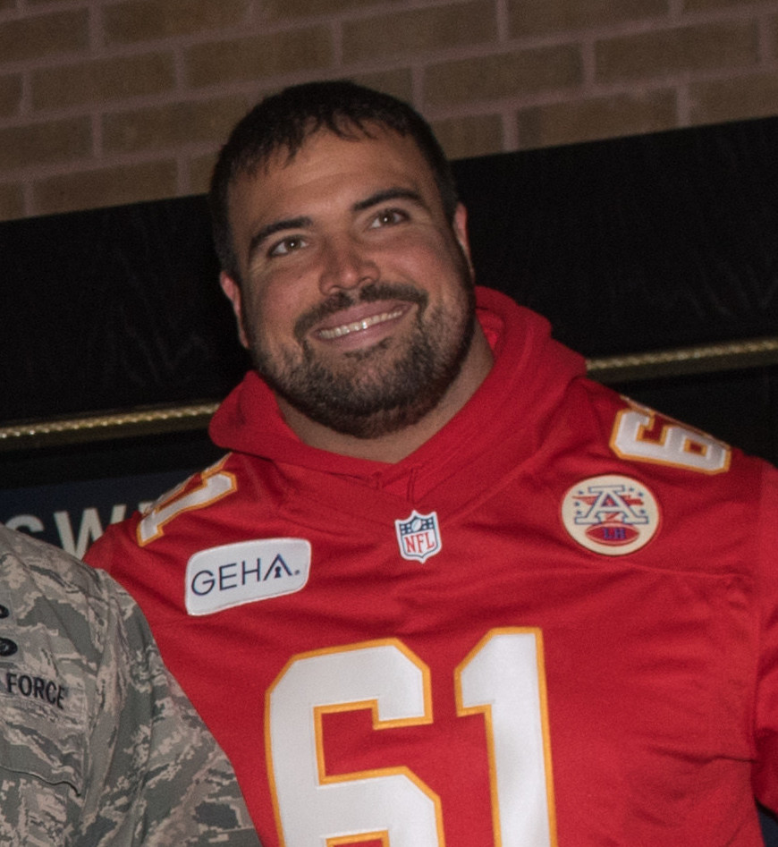 National Football League’s Kansas City Chiefs present game balls to U.S. Air Force Col. Seth Graham, the 509th Bomb Wing vice commander, and Lt. Col. Chard Larson, the 131st Aircraft Maintenance Squadron commander, during a visit to Whiteman Air Force Base, Missouri, Oct. 29, 2019. The game ball presentation symbolizes the importance of the relationship between the community partners with Whiteman AFB.